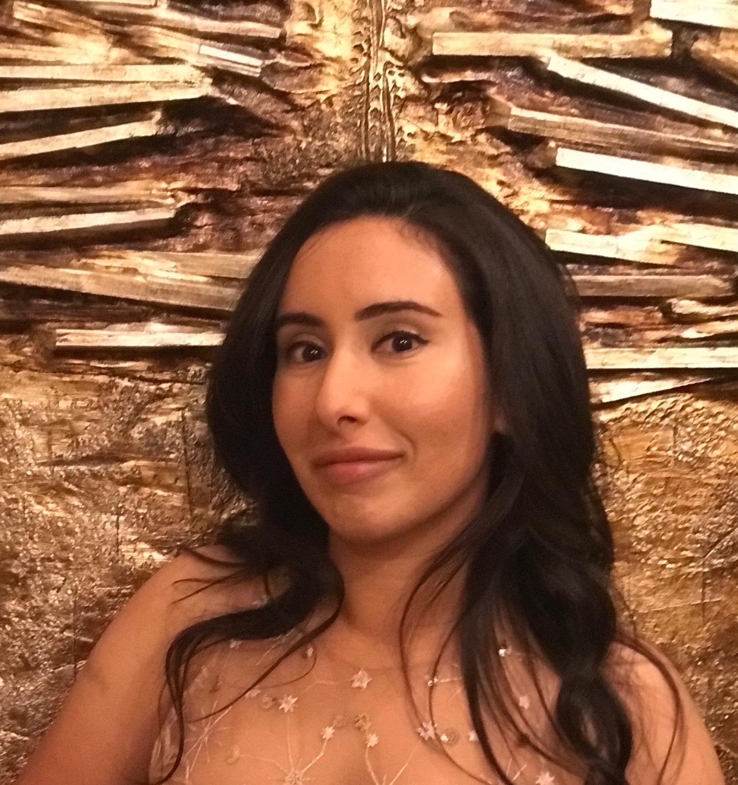 A photo of Sheikha Latifa bint Mohammed bin Rashid Al Maktoum (II)